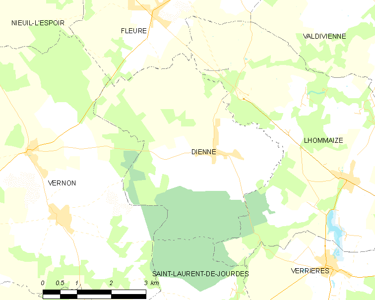 Map of French municipality Dienné